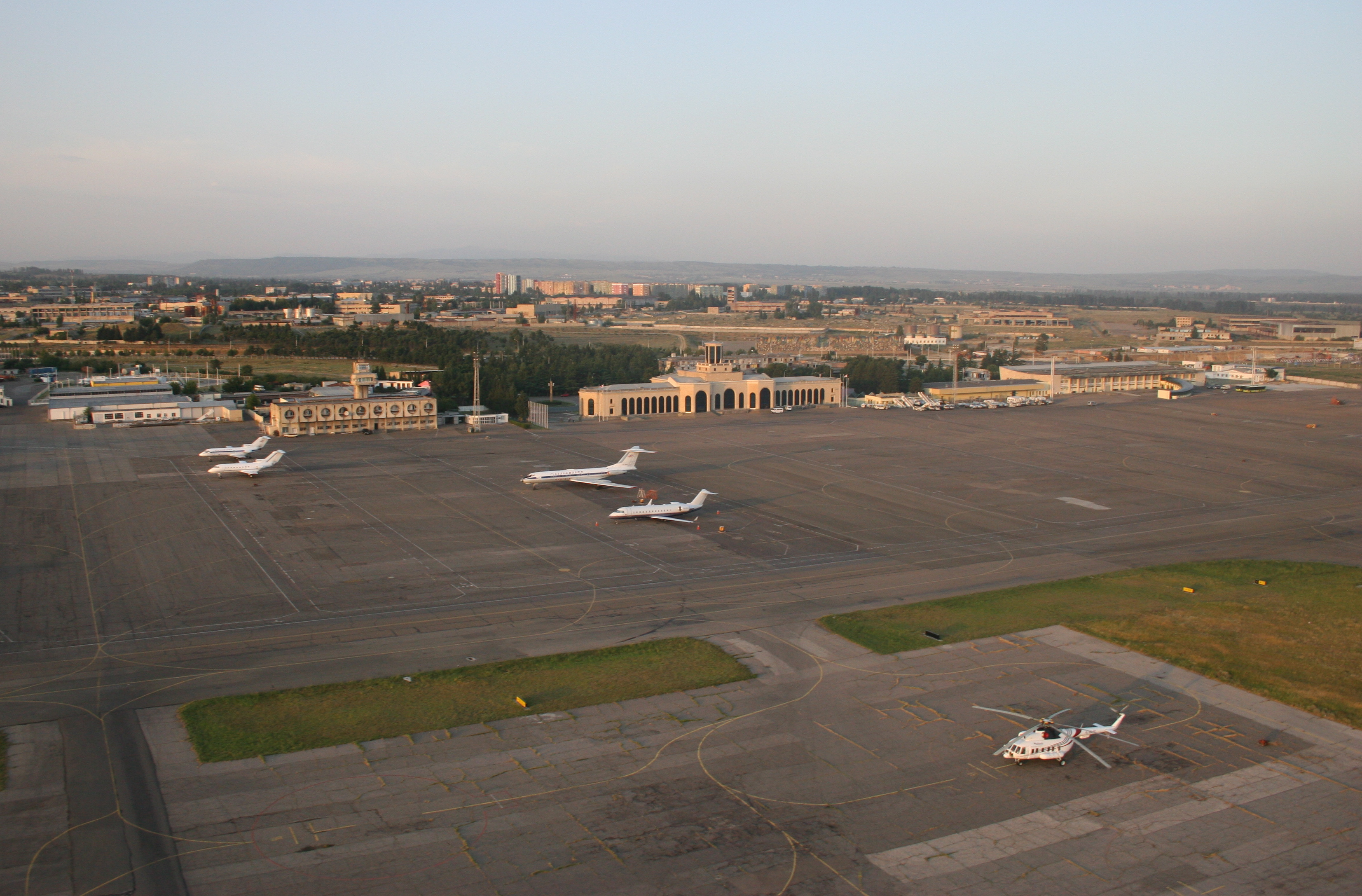 Tbilisi Intl. Airport (old terminals)